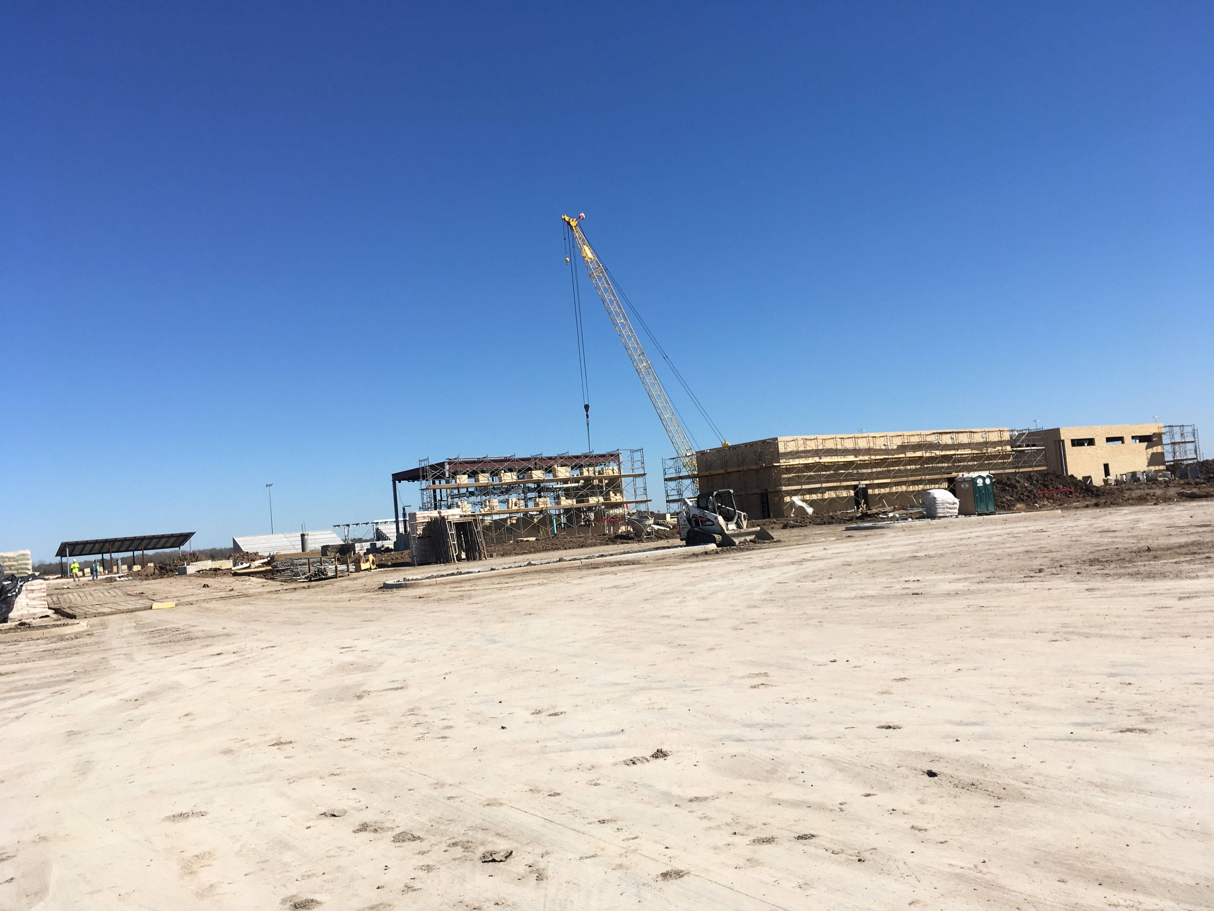 Houston's Aveva Stadium under construction as expected for use by the Houston SaberCats of Major League Rugby. Photo depicts construction of restrooms and locker rooms with east side stands and pavilion.